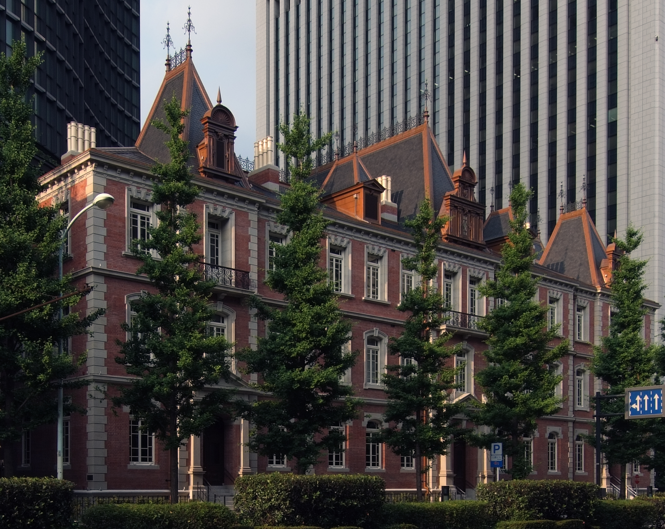 No.1 Mitsubishi Office Building, Tokyo at Chiyoda-ku Tokyo Japan, designed by Josiah Conder.